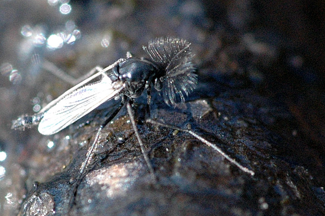 Picture taken in Commanster, Belgian High Ardennes. Species: male of a Chironomidae.